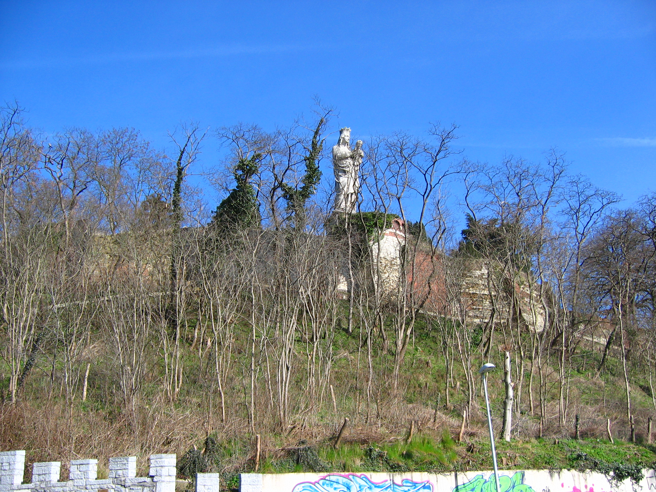 Statue of Mary with Child in Keizersberg Abbey in Leuven, Belgium.